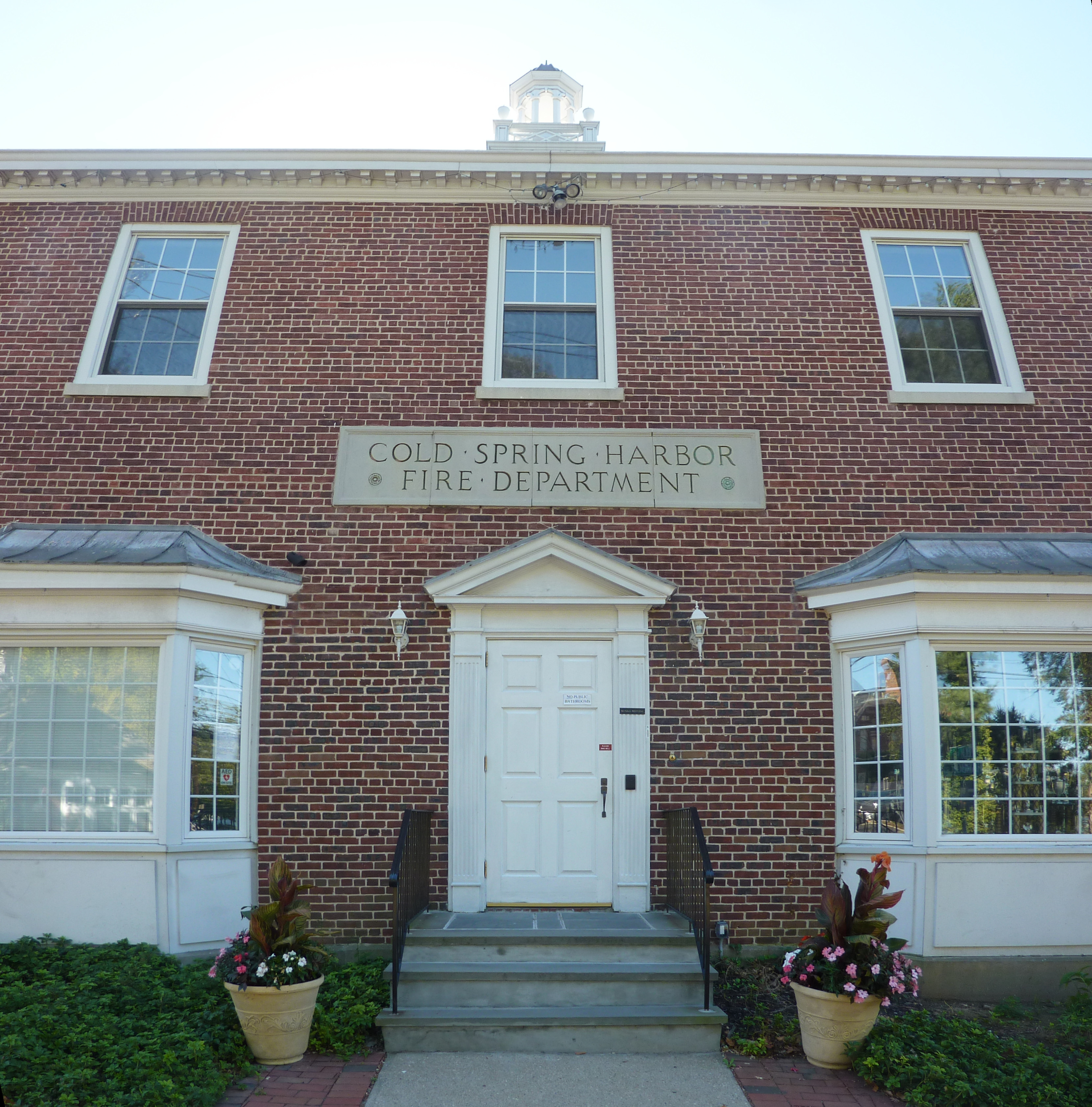 Cold Spring Harbor Fire District Hook and Ladder Company Building, Main Street at Elm Place Cold Spring Harbor